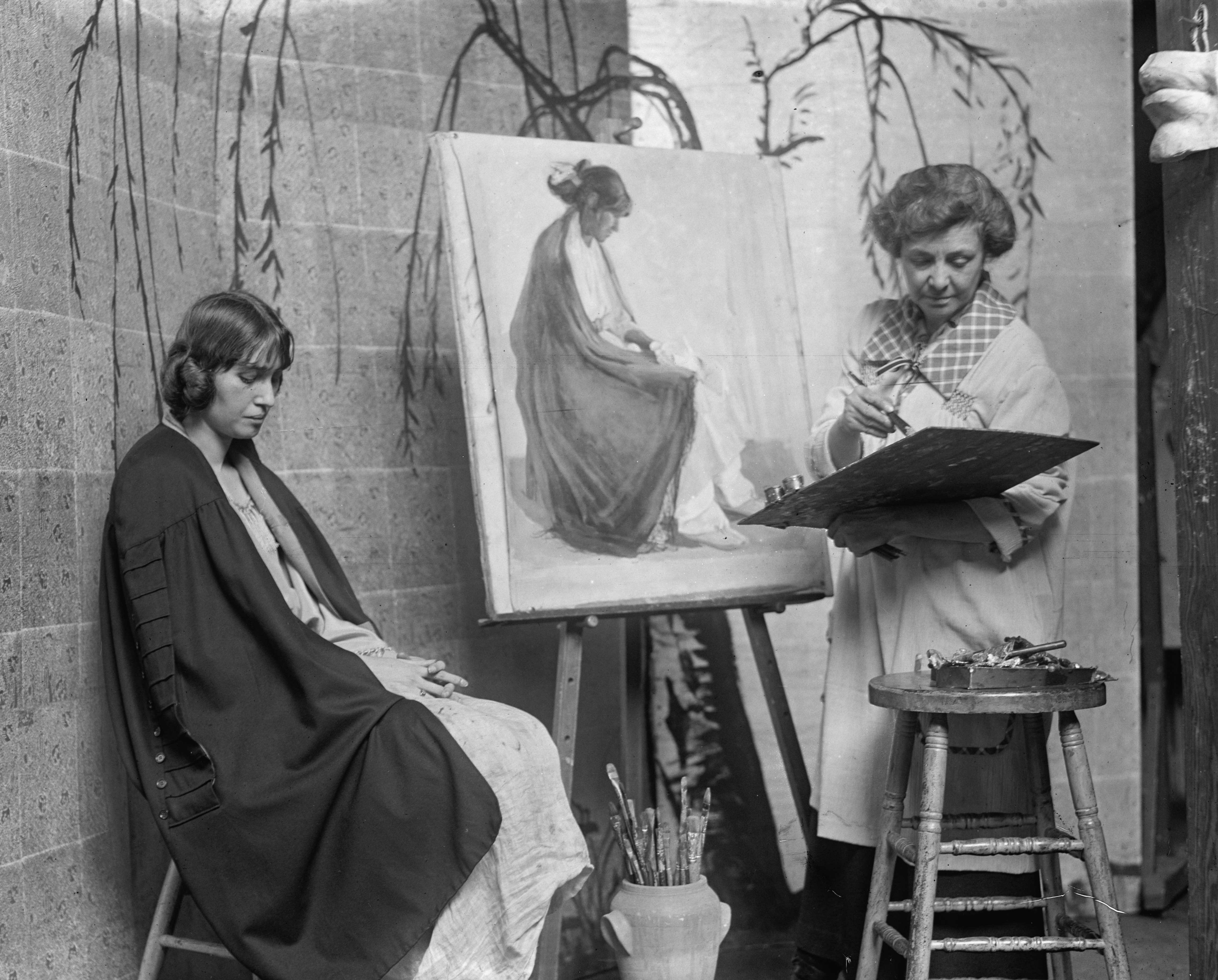 Title: Catherine C. Critcher, 1/23/23 Abstract/medium: National Photo Company Collection (Library of Congress) Physical description: 1 negative